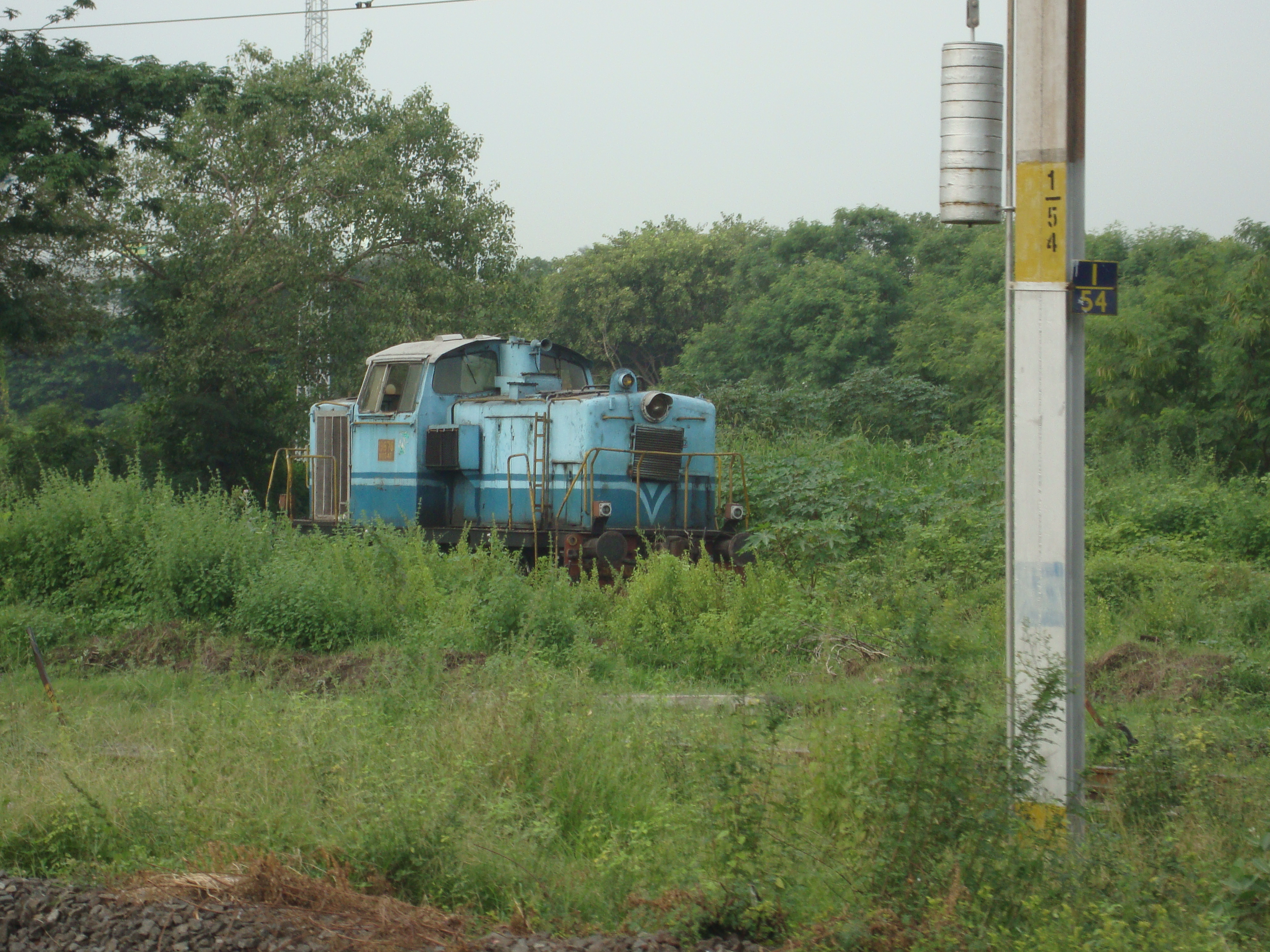 A Diesel hydraulic loco WDS4B at Chennai